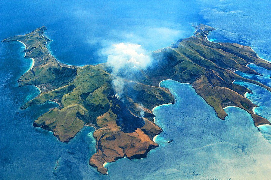 Aerial View of the Palau Banta, the Province of Nusa Tenggara Barat, Indonesia